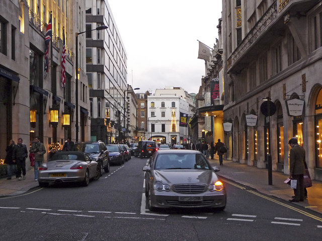 Conduit Street, London W1 Looking down Conduit Street towards Regent Street as seen from Bond Street.